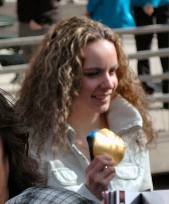 Shannon Szabados takes her Gold Medal to the people!